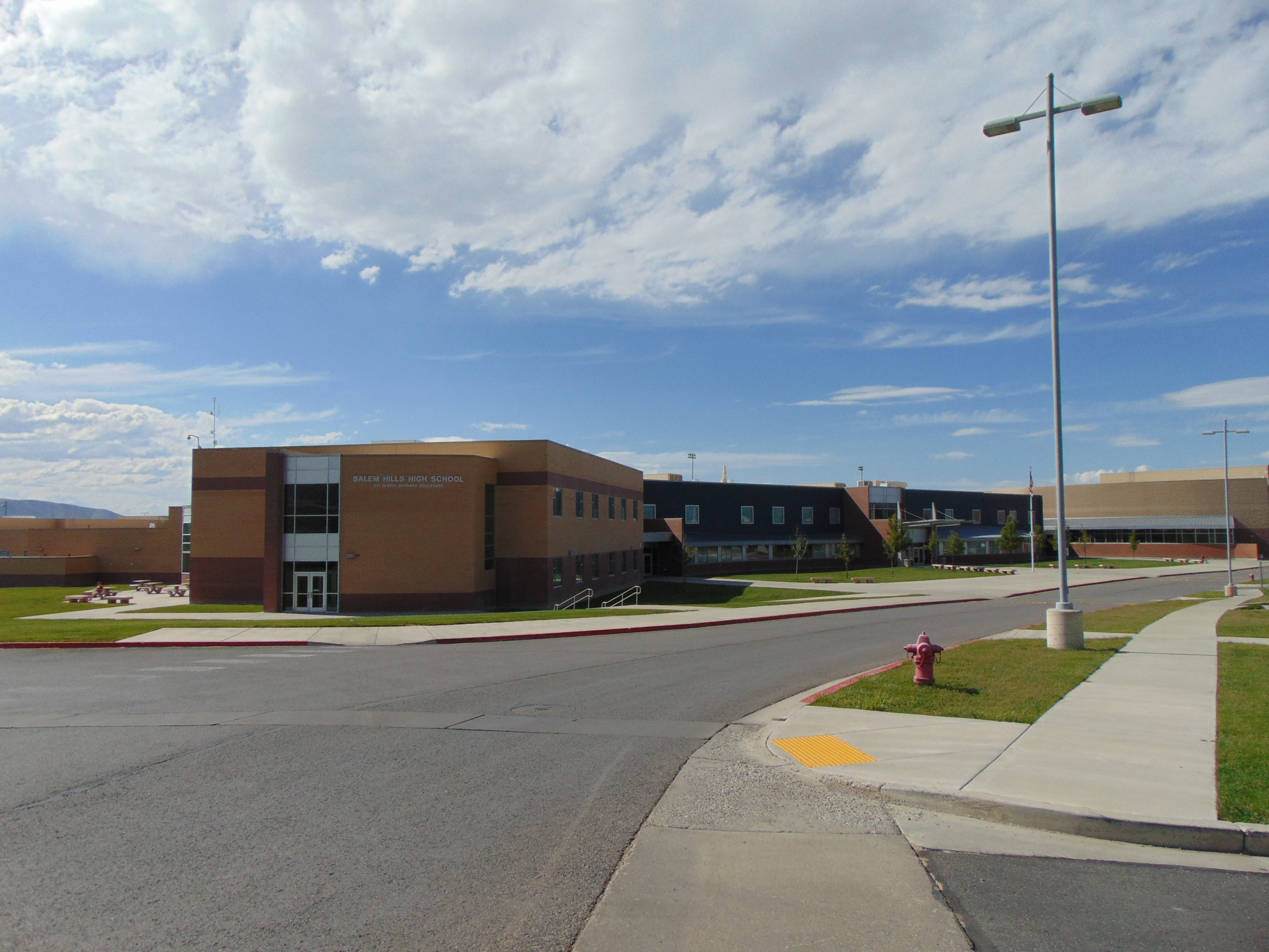 Looking north at the Salem Hills High School in Salem, Utah, May 2016